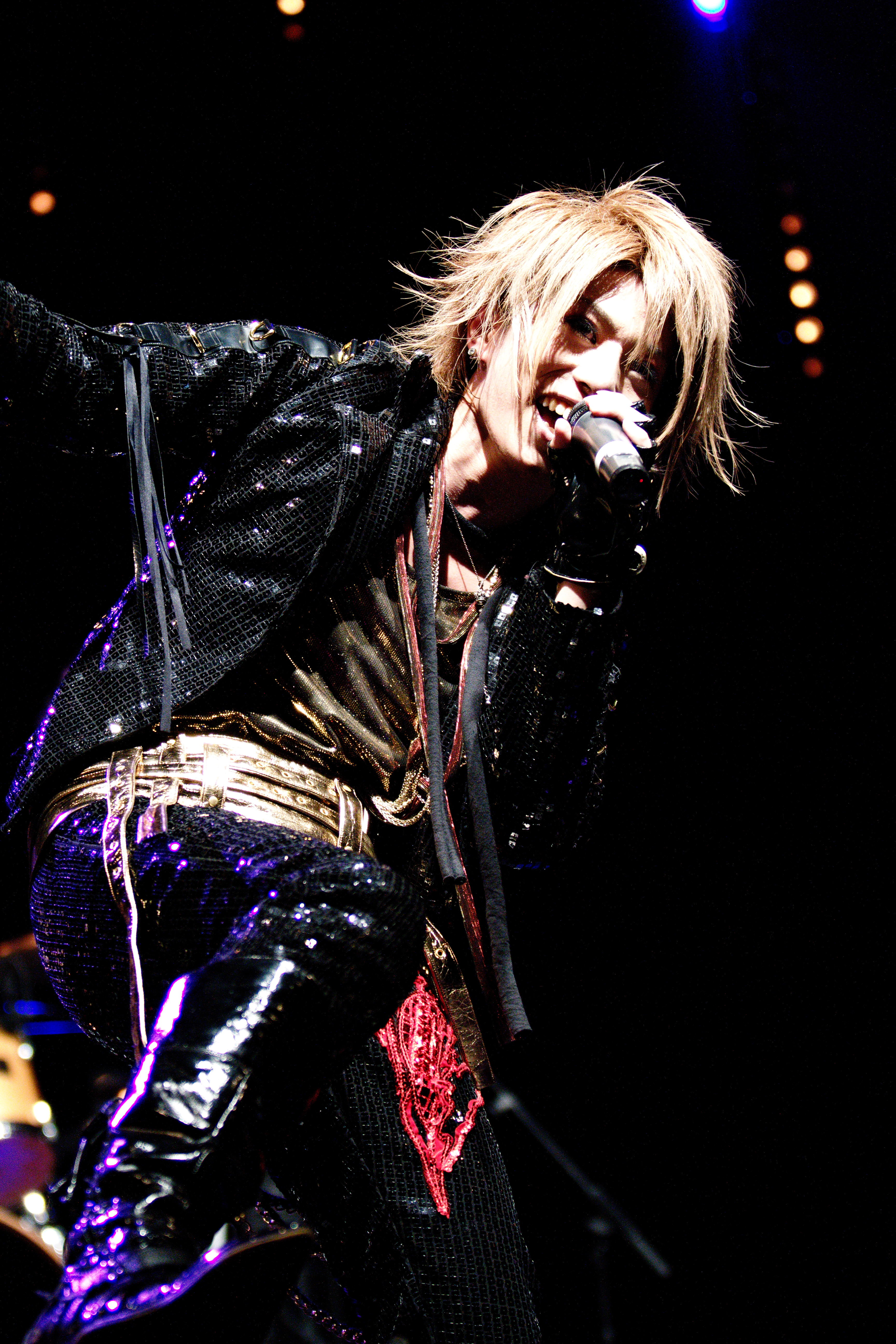 ViViD live at Japan Expo 2010 (Paris, France).